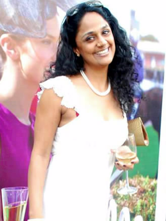 Suneeta Rao at Melbourne Food and Wine Festival